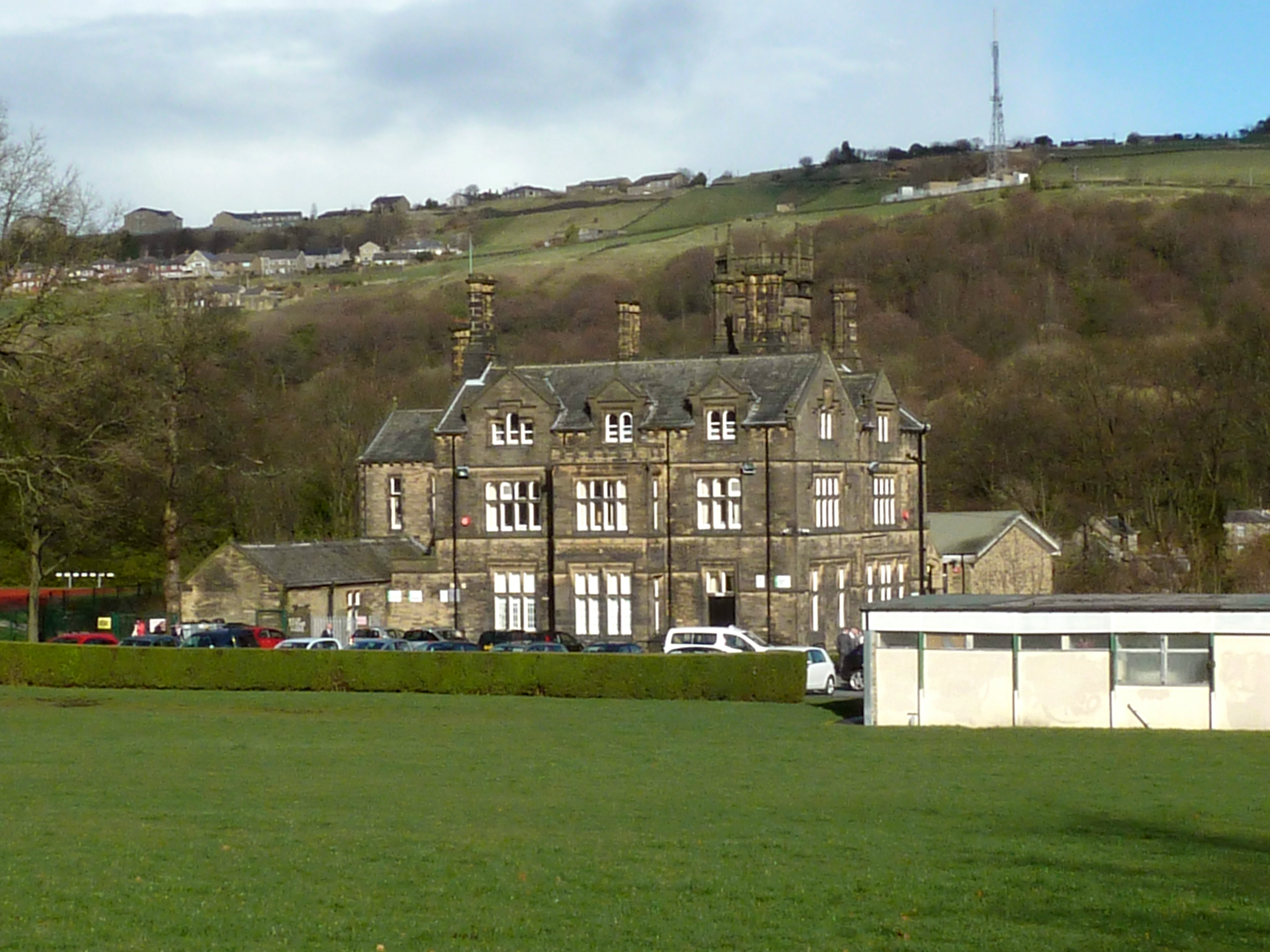 Spring Hall, now known as Spring Hall Mansions, off Huddersfield Road, Halifax, West Yorkshire. It was a rebuild of a 17th century house, designed in 1871 by William Swinden Barber for Tom Holdsworth. It is owned by Kirklees Council and it houses Calderdale Register Office.